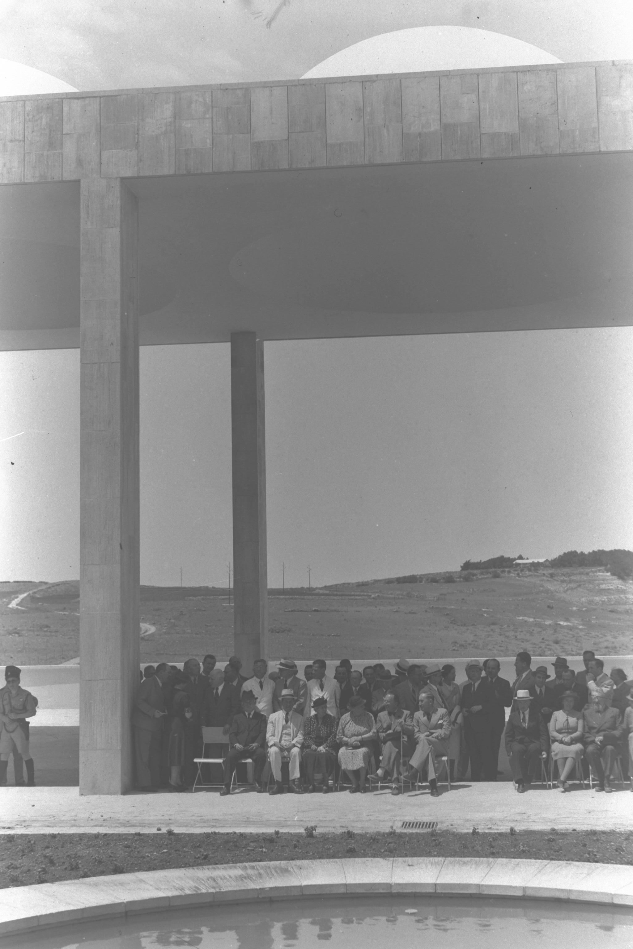 OPENING CEREMONY OF THE HADASSAH MEDICAL CENTER ON MOUNT SCOPUS IN JERUSALEM. AMONG THE GUESTS SITTING DR. MAGNES AND MRS. HENRIETTA SZOLD (2ND AND 3RD FROM LEFT). טקס חנוכת המרכז הרפואי "הדסה" בהר הצופים, ירושלים.